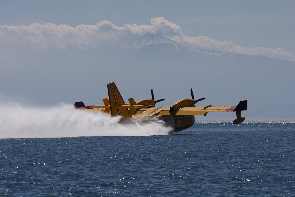 I-DPCN at ork loading B